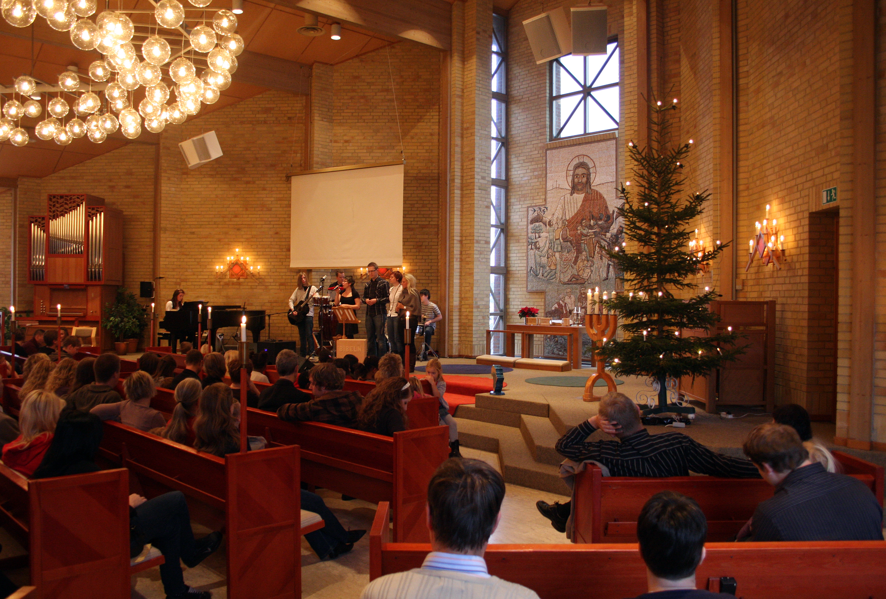 Service at Missionskyrkan (Mission Covenant Church) in Vårgårda, Sweden, on the second Sunday of Advent 2008